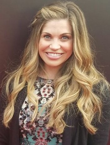 Actress Danielle Fishel at the 2016 Emmys